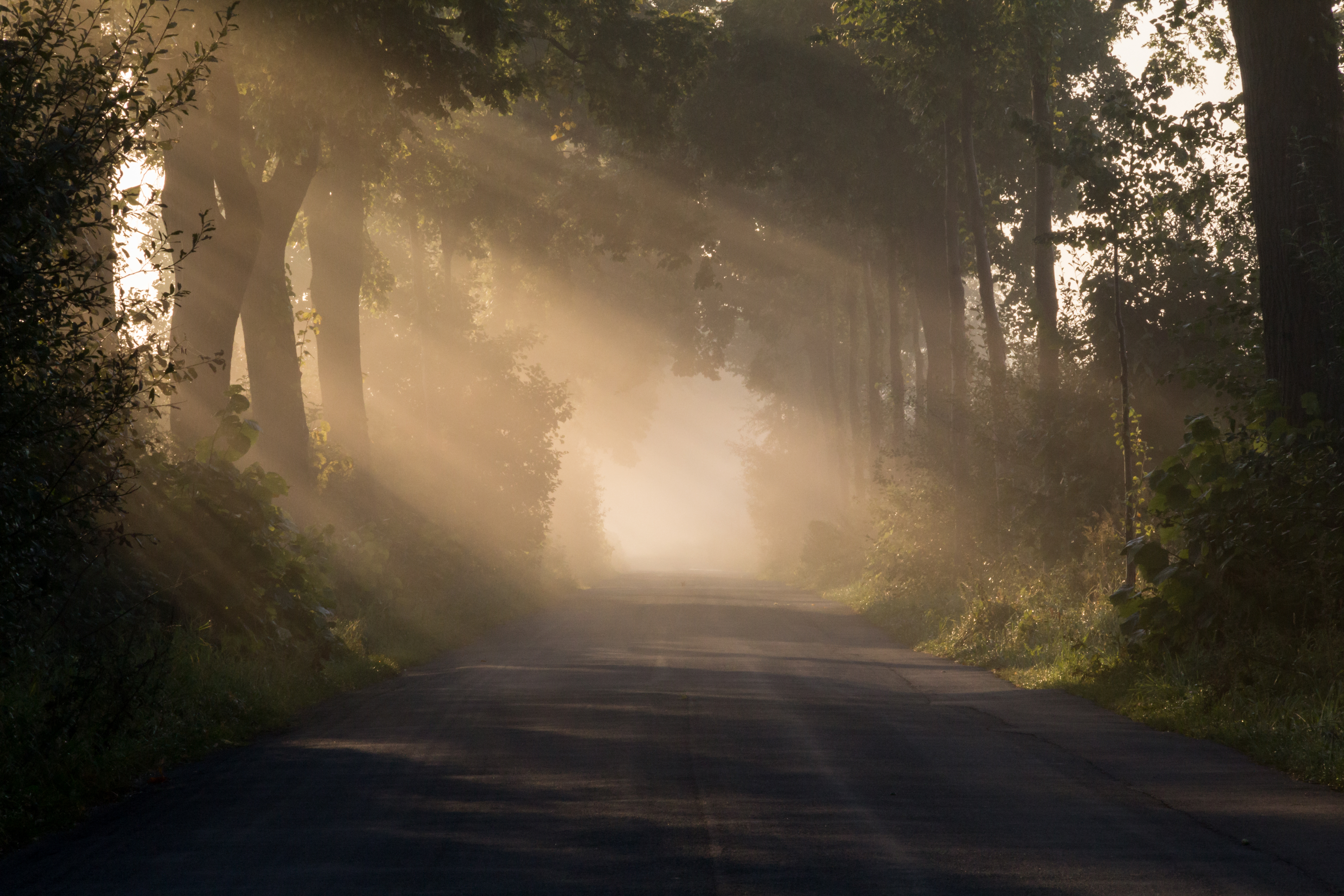 Sunrise in morning mist near Dülmen (Hülstener Straße), North Rhine-Westphalia, Germany